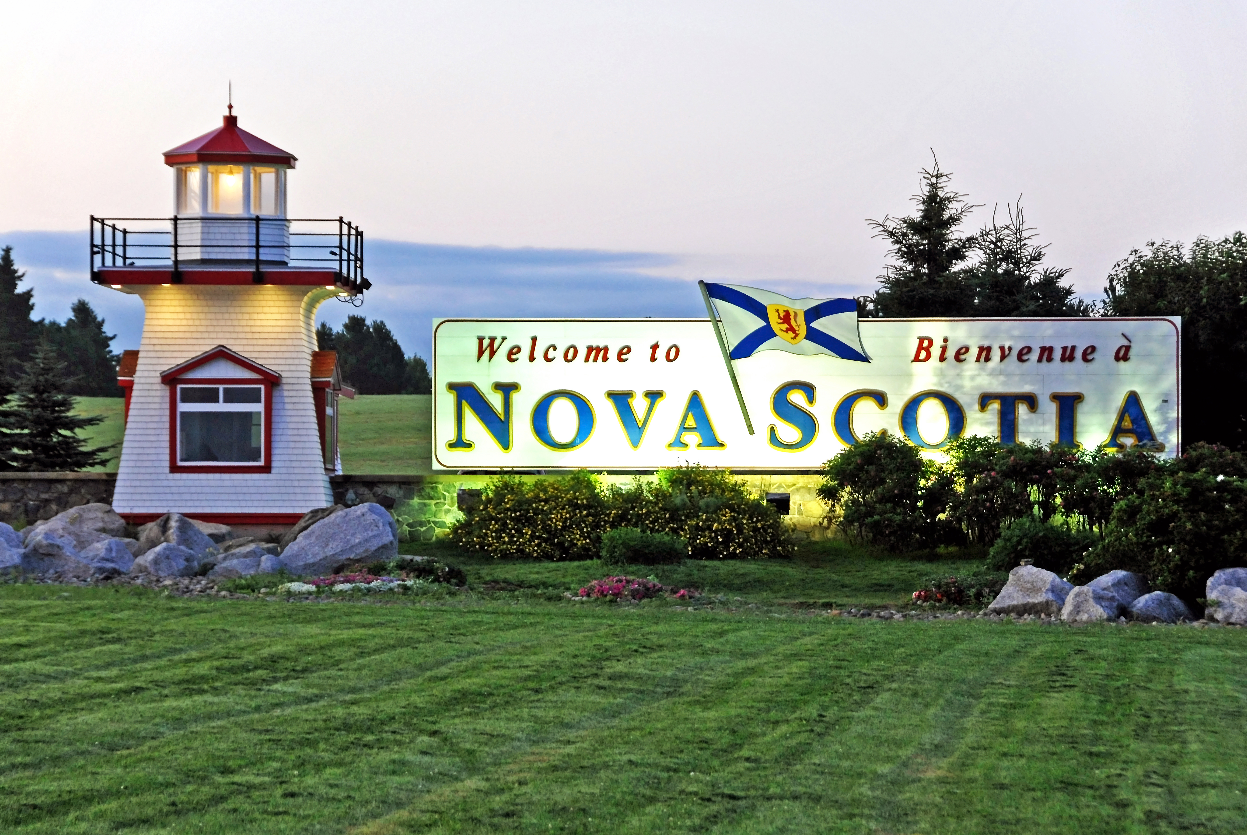 A partially bilingual sign at the entrance to the Canadian province of Nova Scotia. "This is the sign that welcomes people who are driving into Nova Scotia, there is also a tourist bureau here to pickup information for those that need it. Nova Scotia is one of the friendliest places on earth, ask anyone who has been here. Discover Nova Scotia in the Atlantic Canada by visiting each of the seven regions and the many experiences that they each have to offer. Whether you want to shop and pamper yourself, a history buff interested in our heritage, want to eat the best seafood, or an outdoorsman excited to begin a new adventure, Nova Scotia has something for everyone. Oh, ya and lots of lighthouses....................LOL"